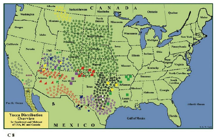 Distribution of the capsular fruited species in southwest, midwest USA, Mexico Baja California and Canada.